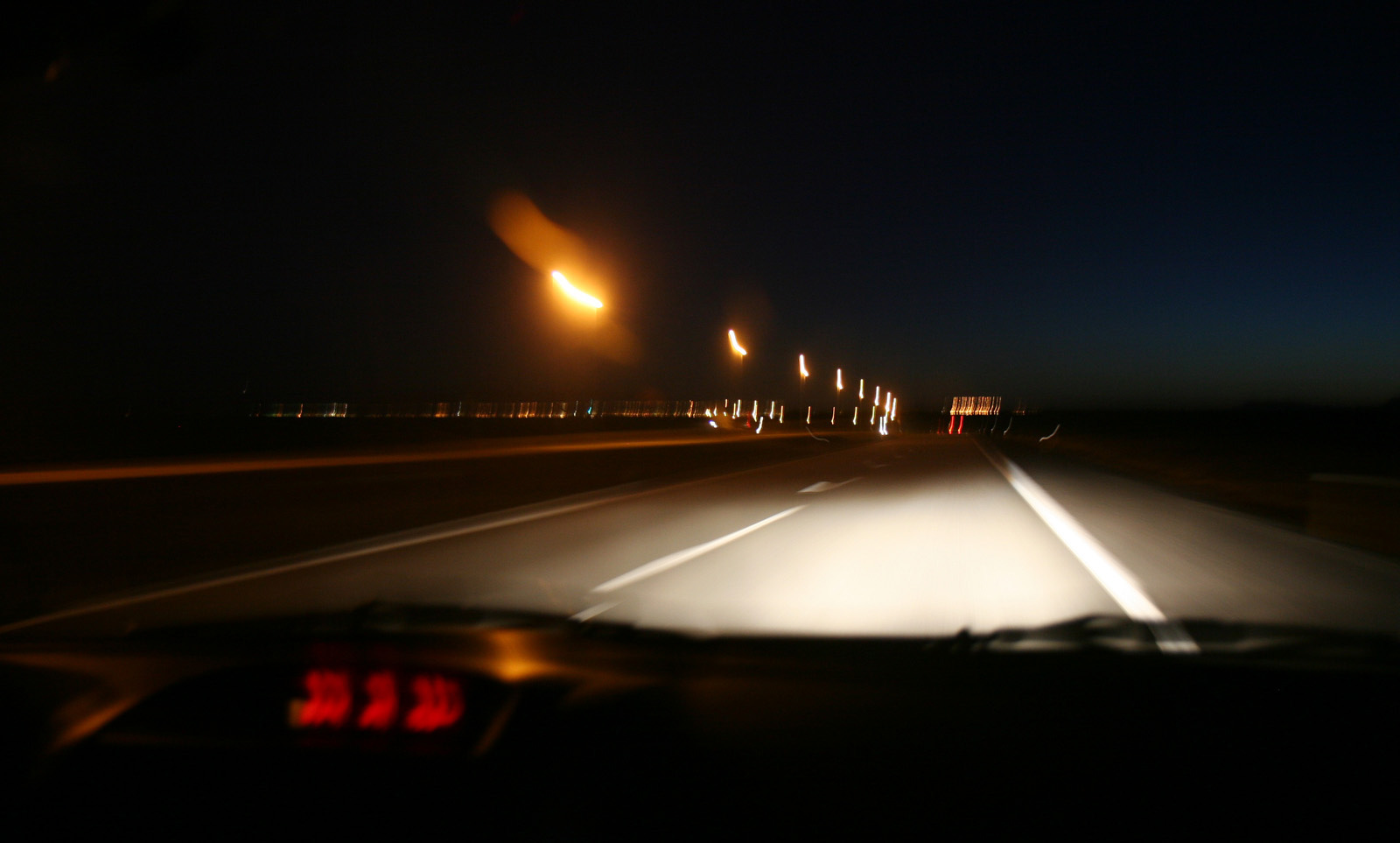 Southeast down Route 41 between Keflavík and Njardvík, November 21 08:15 Iceland, November 2007 Photo by me user debivort (or friend, with permission given to upload and license freely).